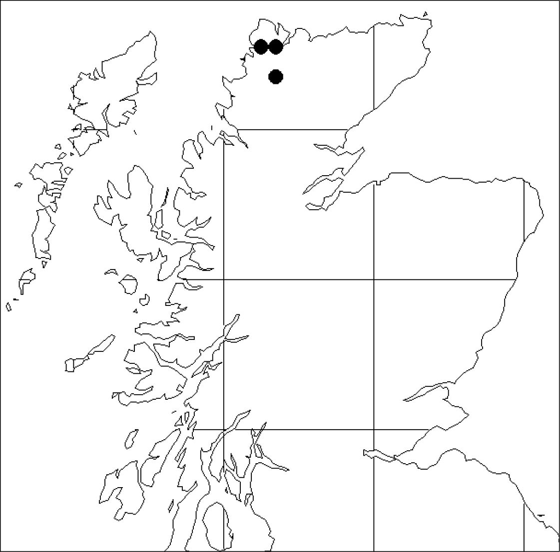 Distribution of Hieracium maccoshiana in Scotland.